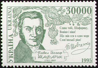 Stamp of Ukraine